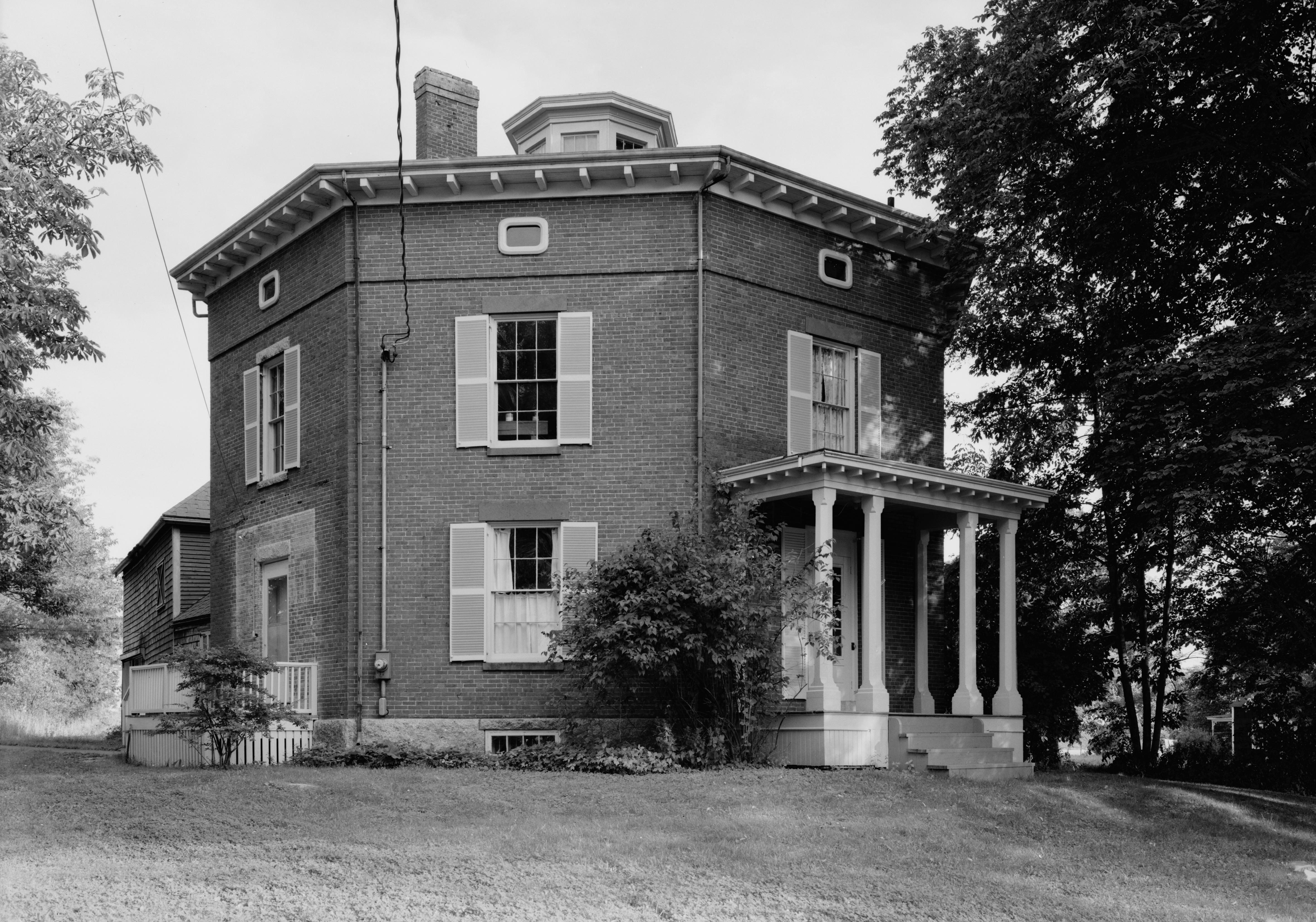 Exterior of the Capt. George Scott House, located on Federal Street in Wiscasset, Maine, United States. Built in 1855, it is listed on the National Register of Historic Places, and it is a part of a Register-listed historic district, the Wiscasset Historic District.